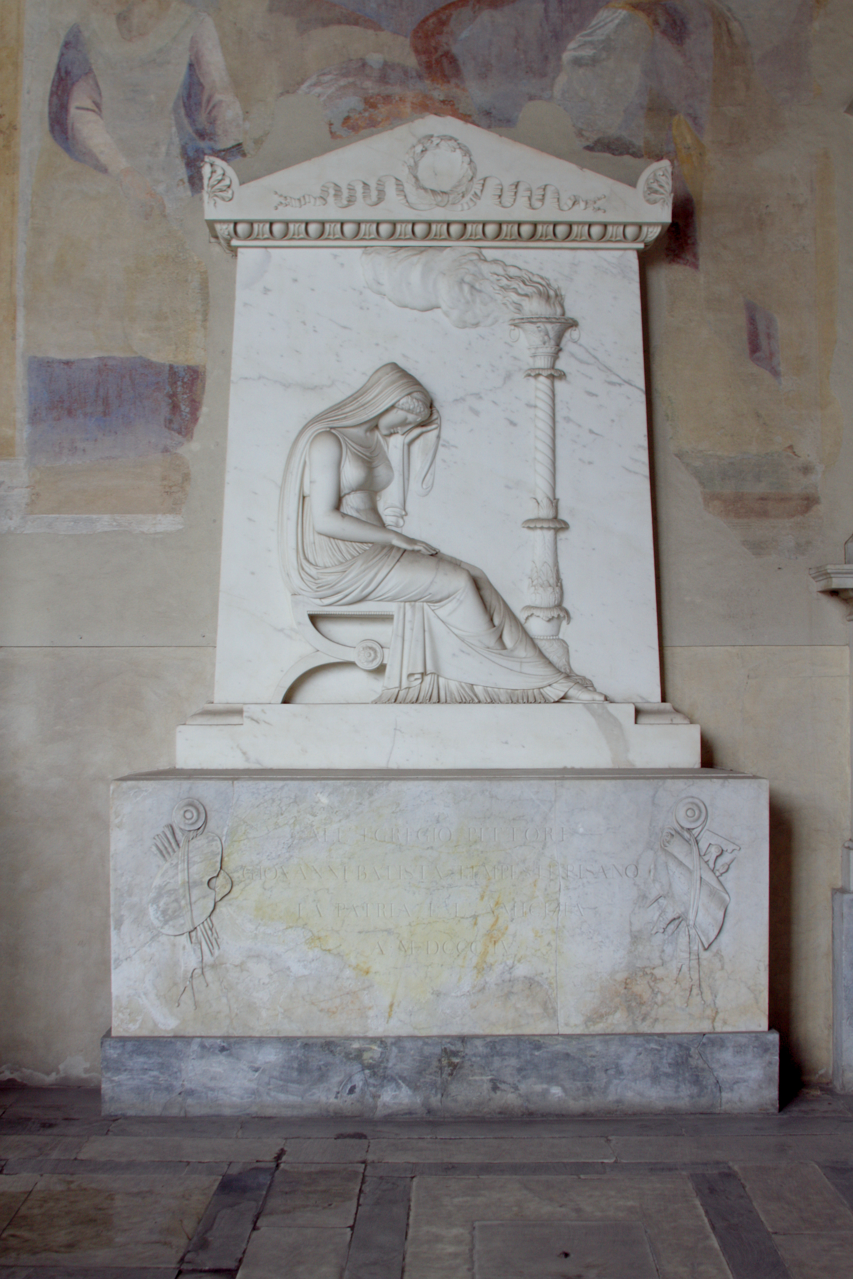 Camposanto - Pisa 2014